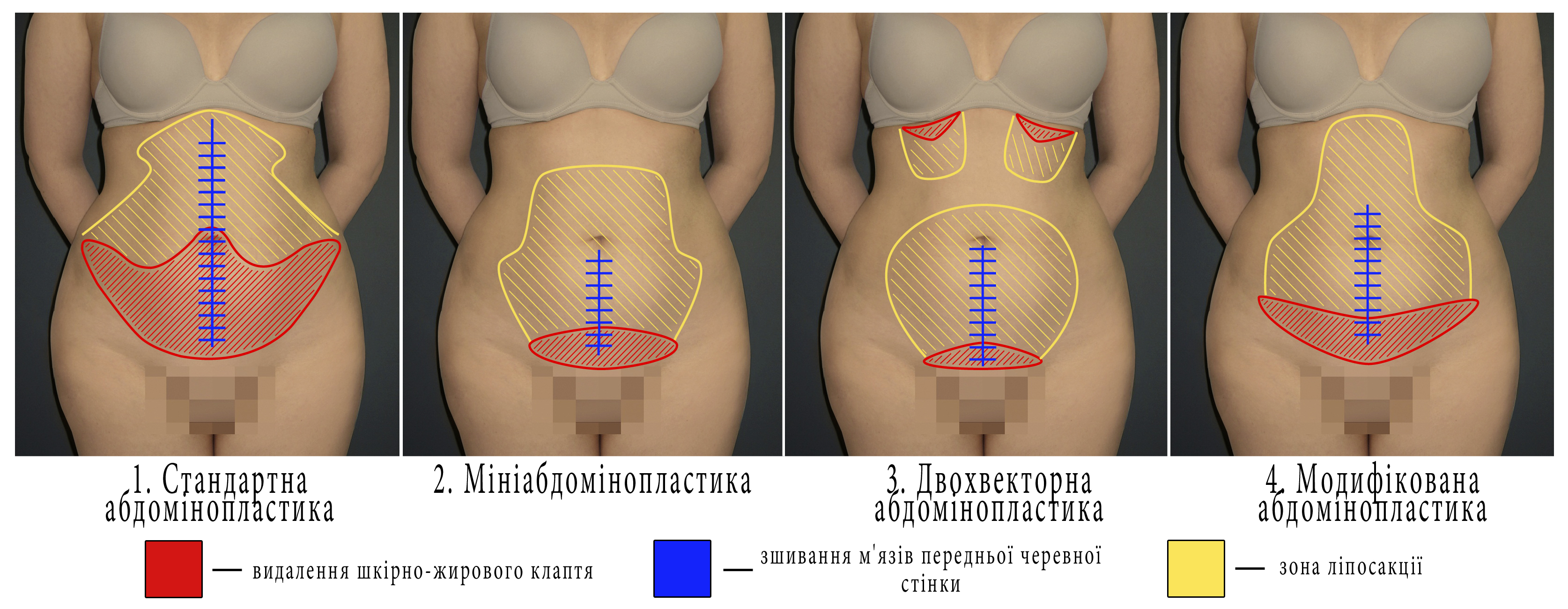 Abdominoplasty